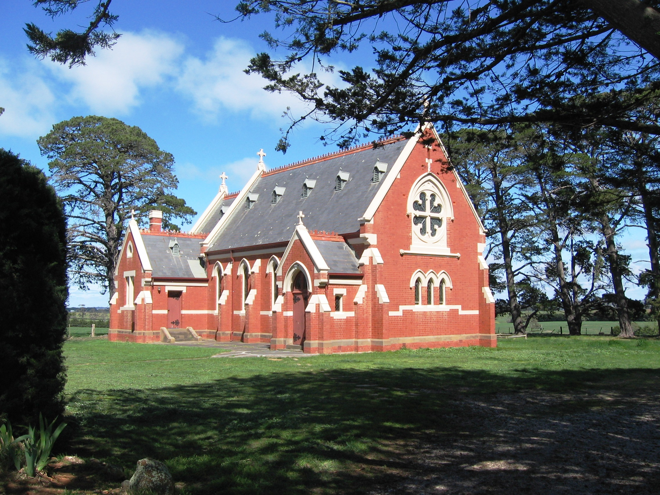 Our Lady, Help of Christians Roman Catholic church at Korobeit, Victoria. The church was a shooting location for the film Charlotte's Web